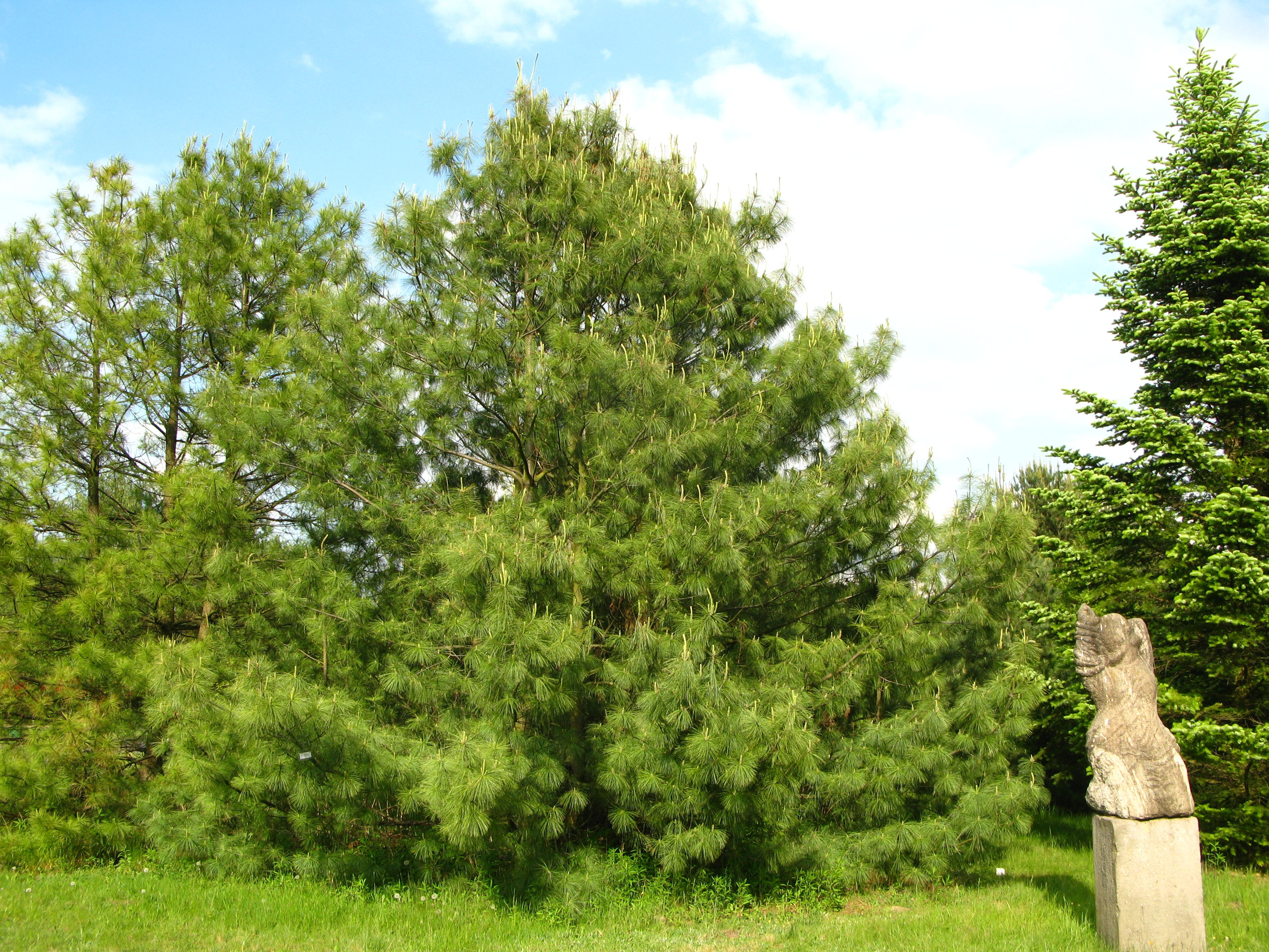 Bhutan Pine (Pinus wallichiana) in PAN Botanical Garden in Warsaw